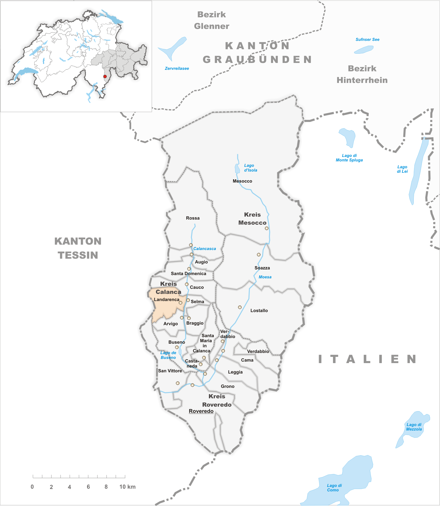 Municipality Landarenca Artist: Tschubby